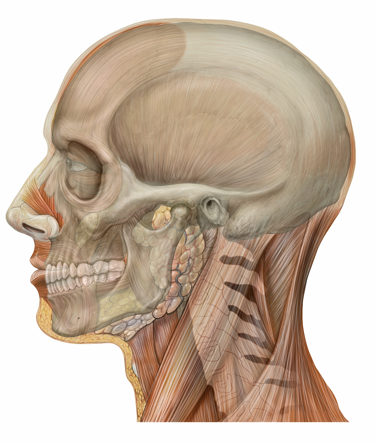 head anatomy lateral view with skull